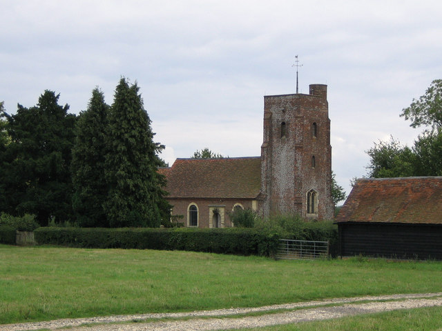 Parish church of St Mary Magdelene, Whipsnade, Bedfordshire, seen from the northeast